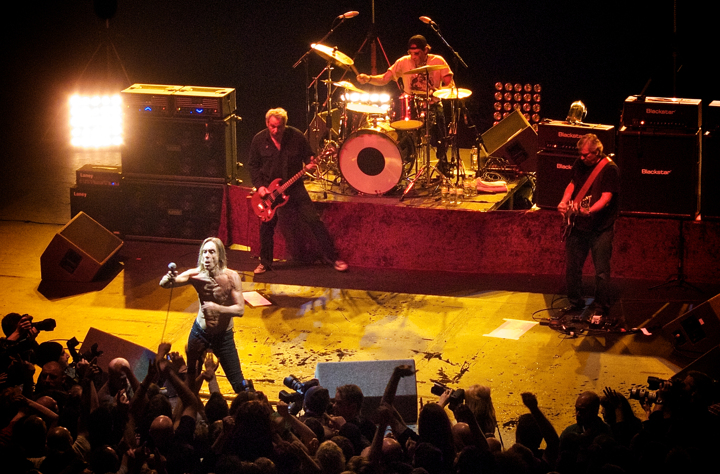 Hammersmith Apollo, 2nd May 2010